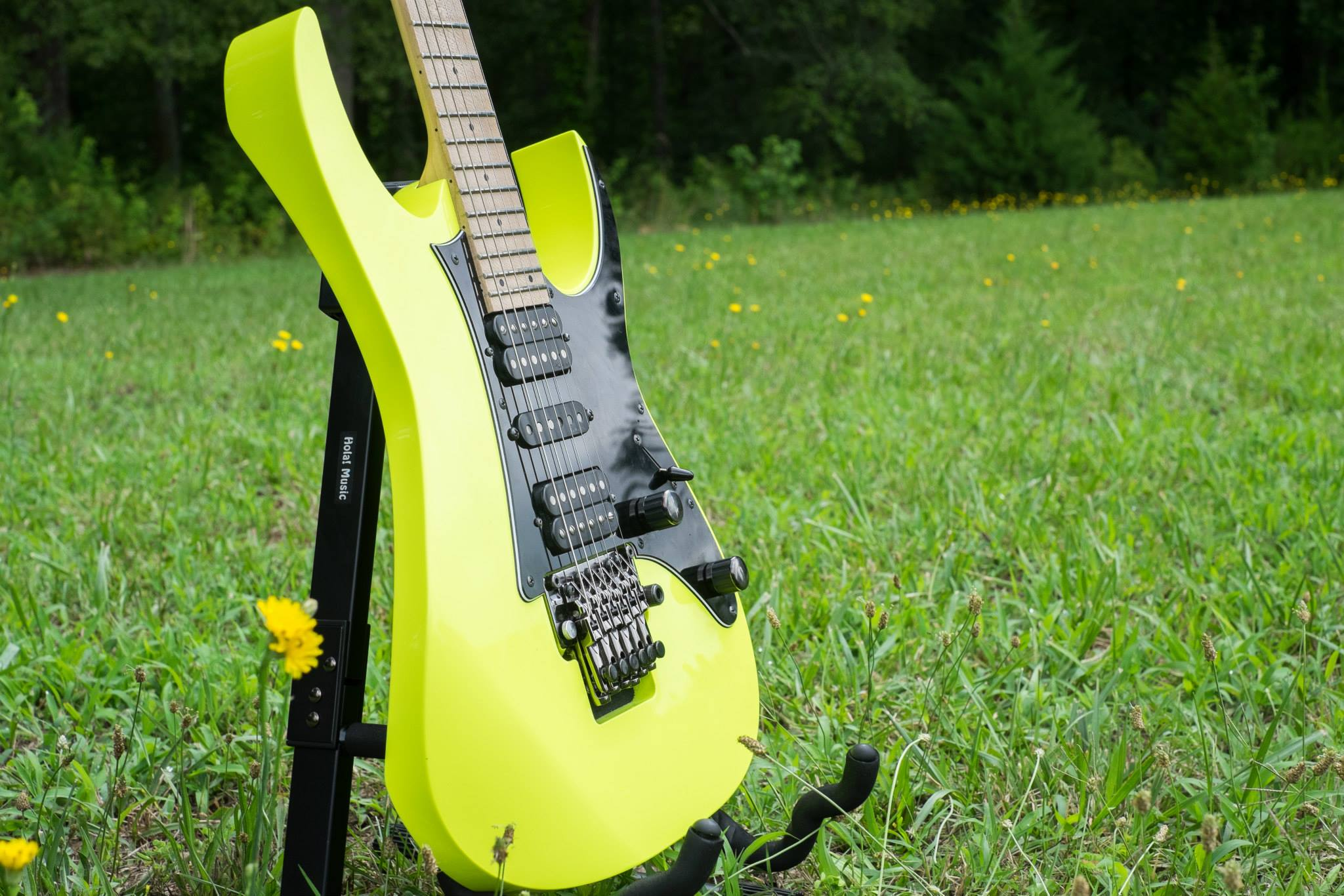 A 2012 Ibanez RG3250MZ electric guitar.